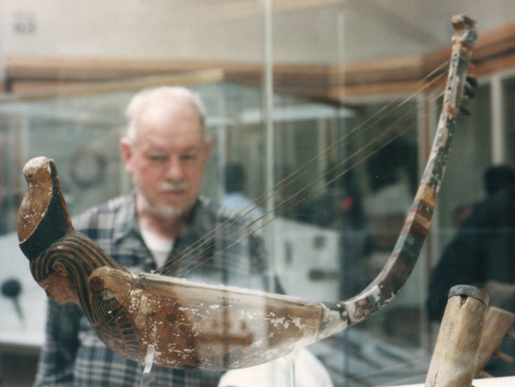 An ancient Egyptian harp on display in some UK museum (family snapshot).